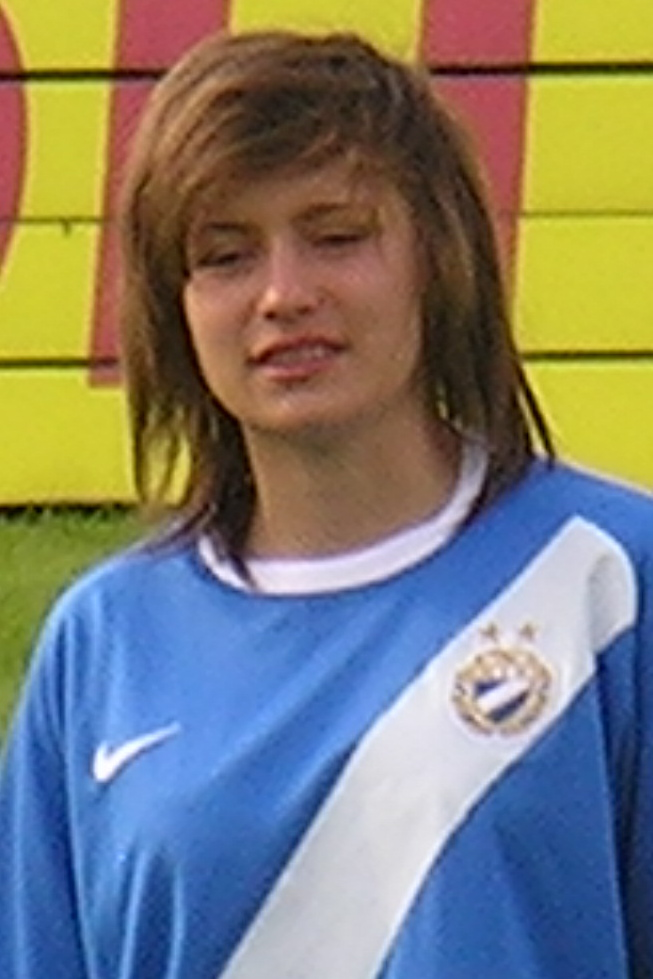 Alexandra Nagy, Hungarian football player Event: MTK-Femina 6-2 in Hidegkuti Stadion, Budapest